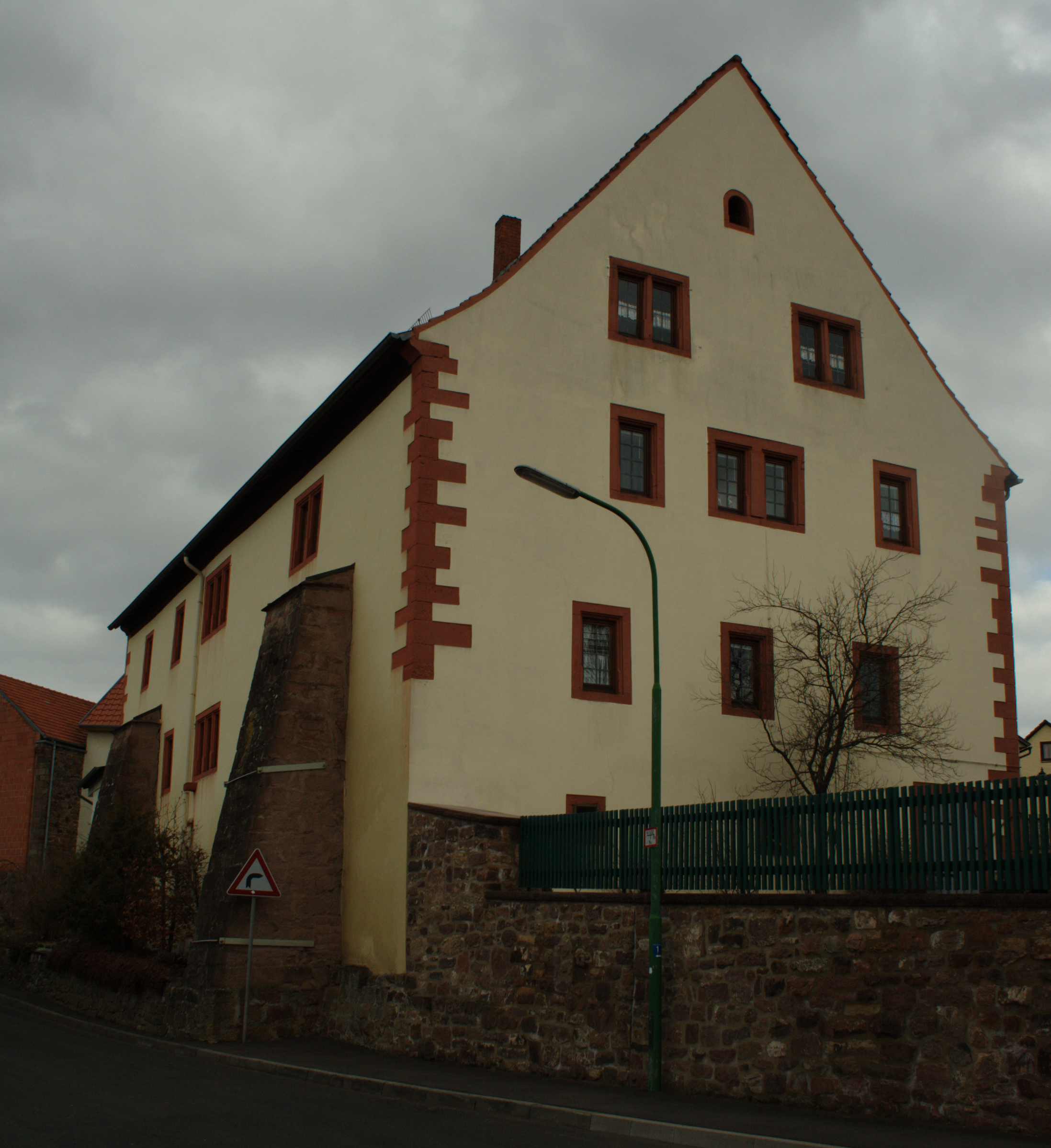 Grossenlueder / Mues Hessen Burg